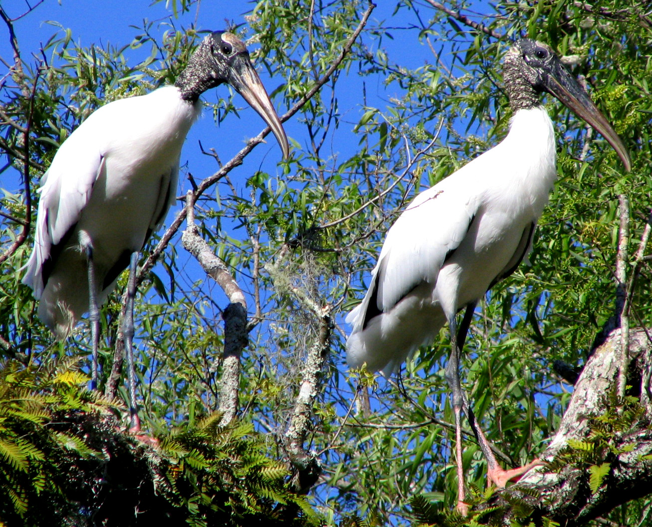 Wood Storks on the Smith Canal near the St. Johns River in Florida.